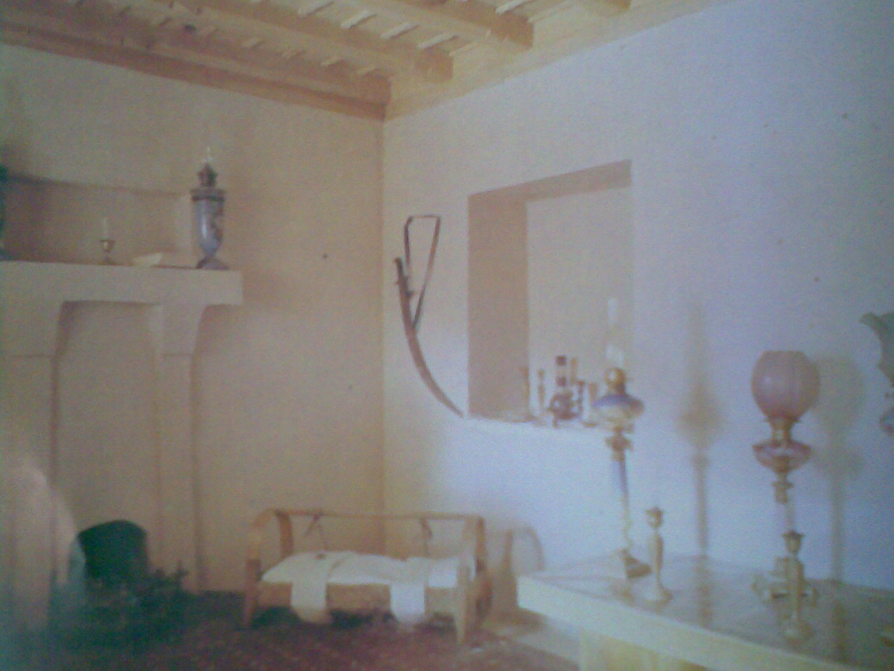 Reza Shah's birthplace in Alashat, Mazandaran, (From the book "Travel literature of Reza Shah (1976)")